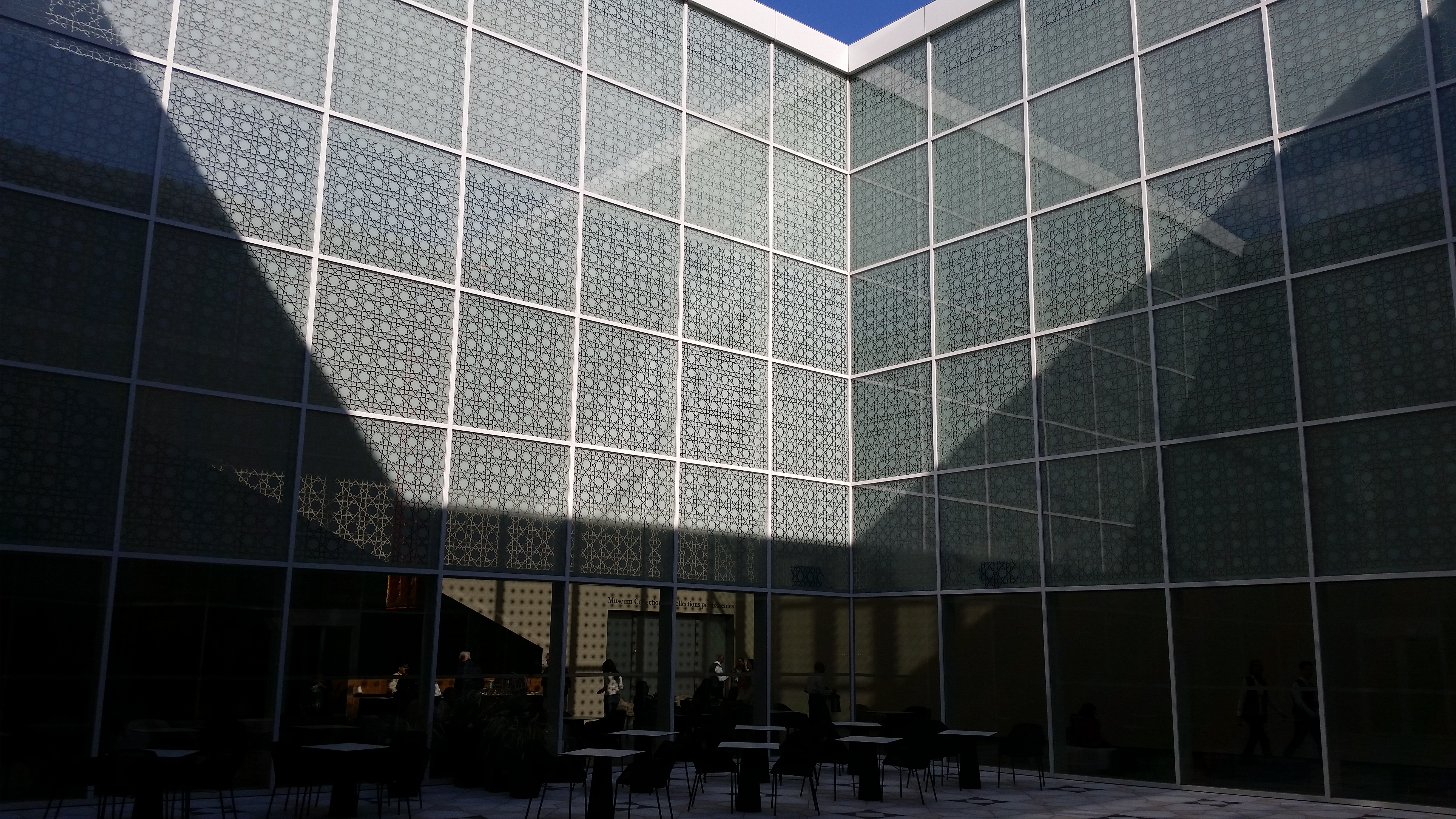 The interior courtyard is a traditional feature of Islamic architecture.